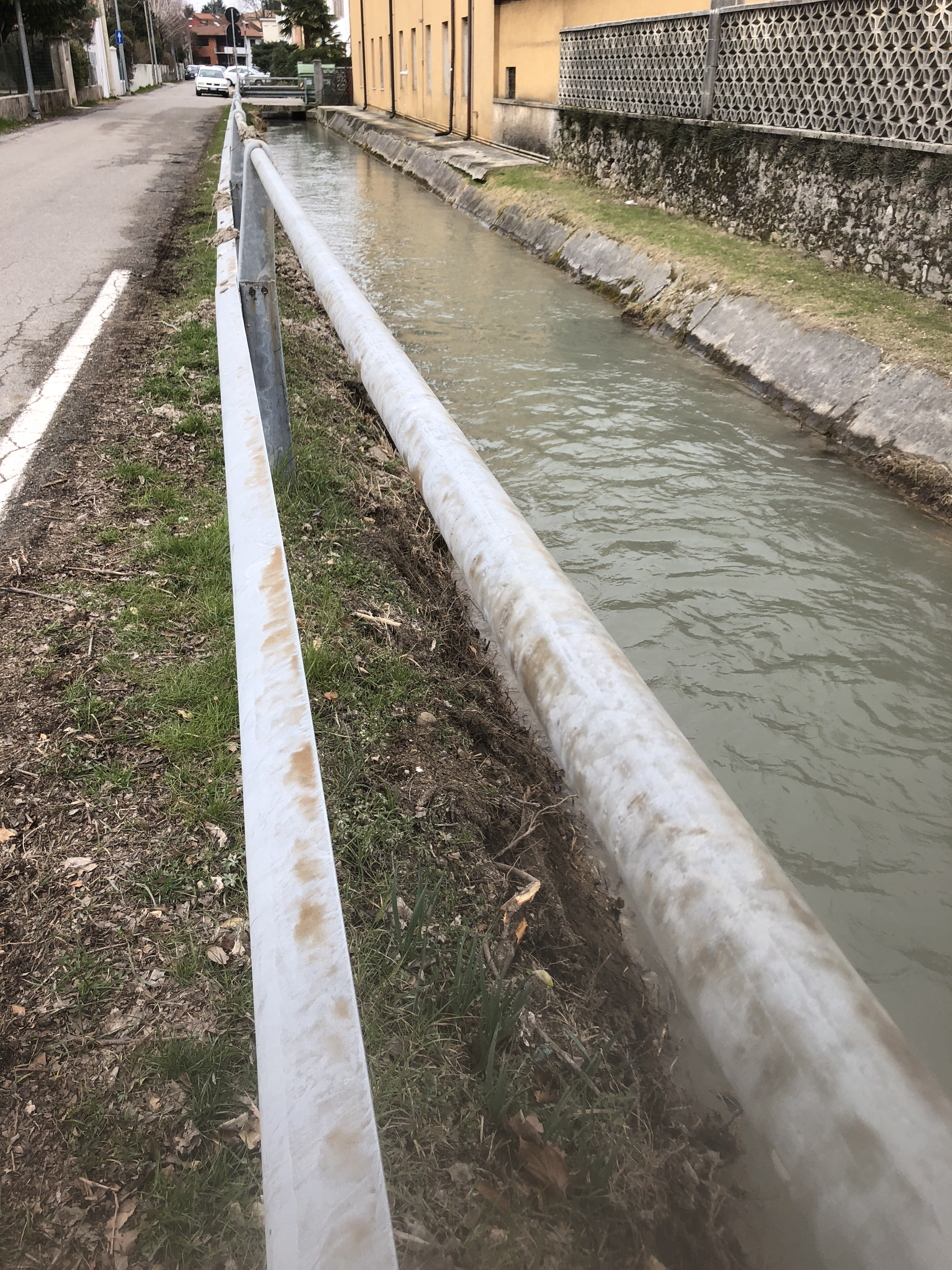 Canale S. Gottardo 1